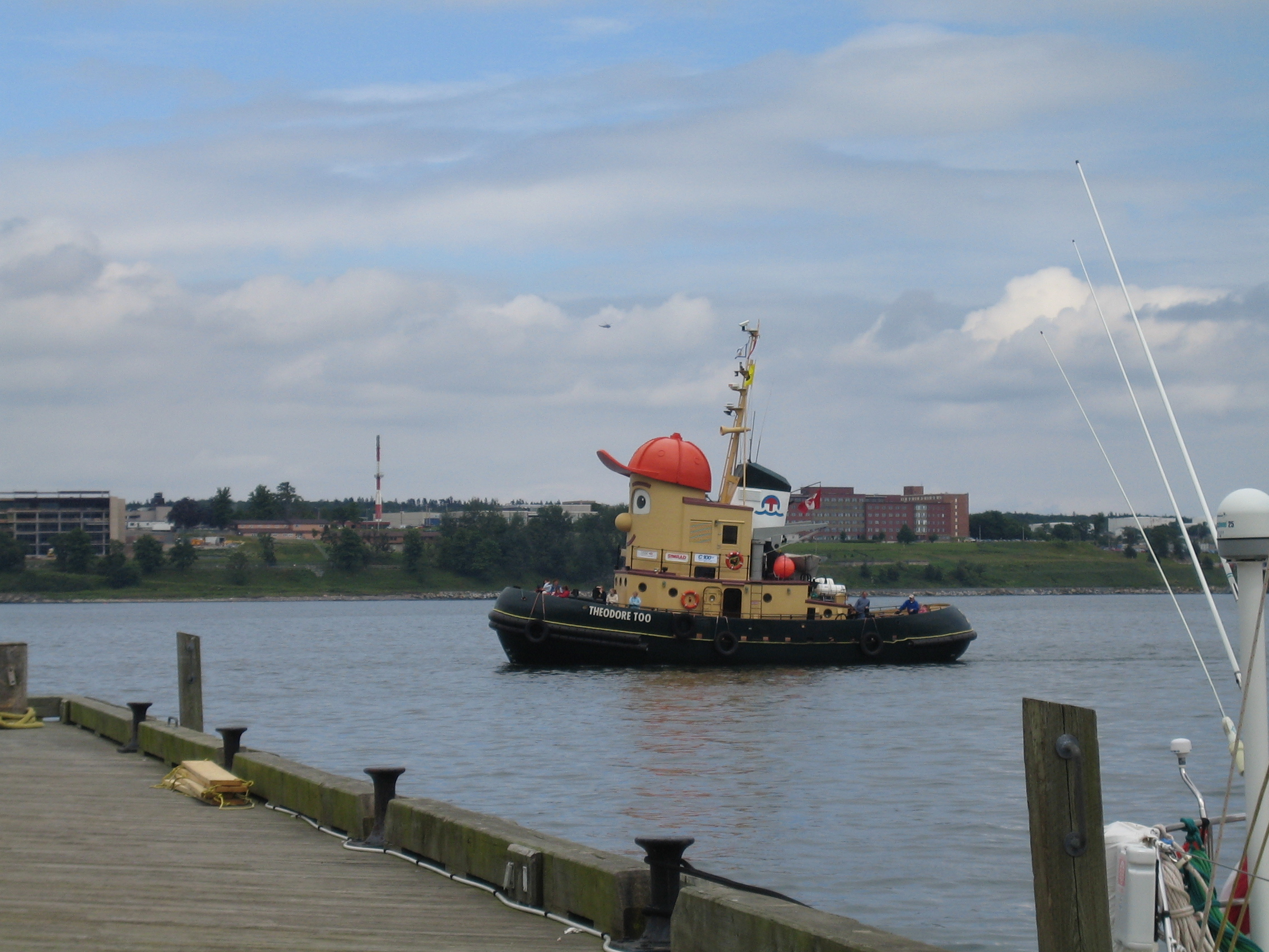 The Theodore Too is a full-size working boat which is a replica of toy-ship Theodore.